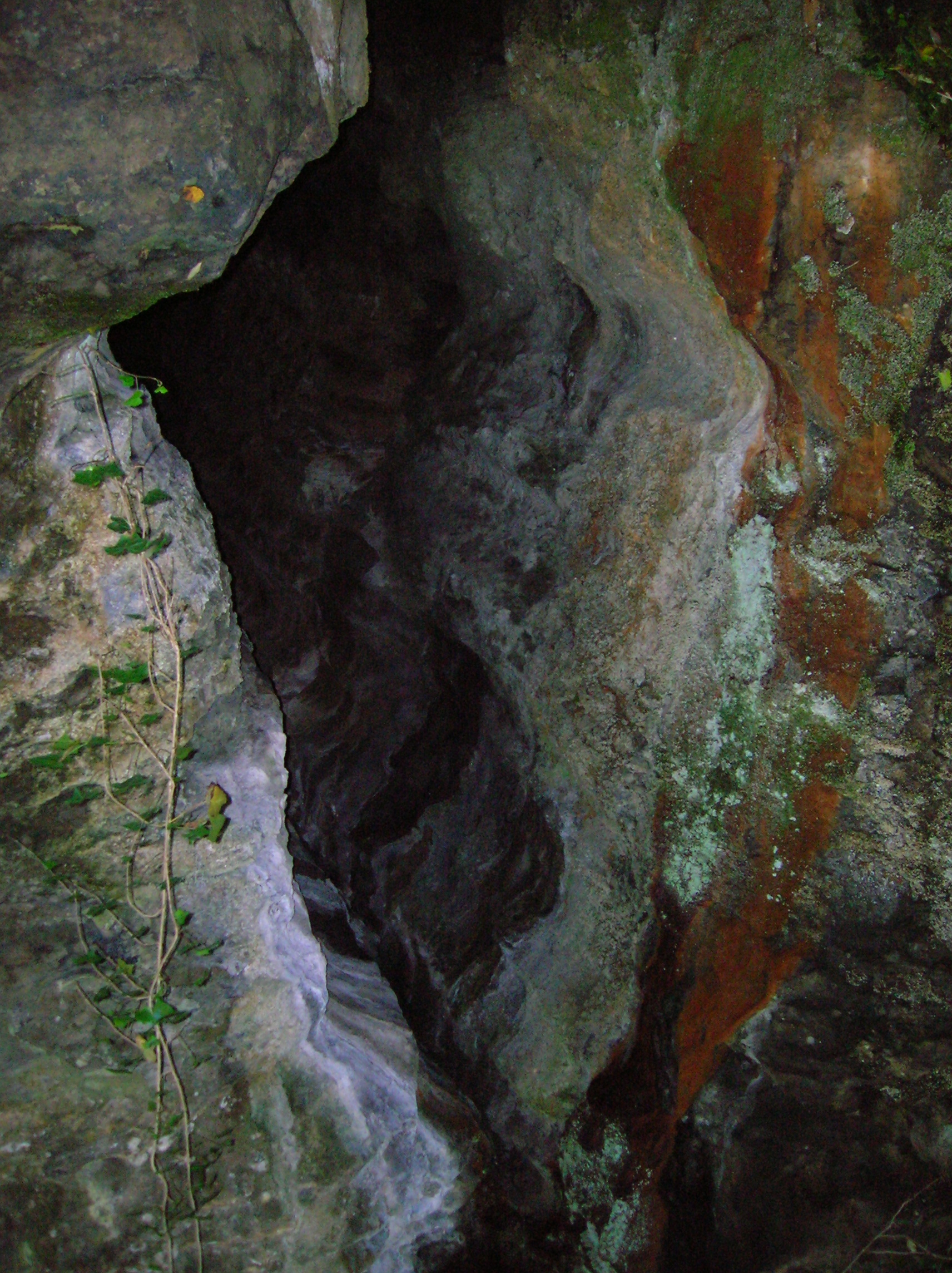 An entrance to the Cleeves Cove cave system on the Dusk Water, North Ayrshire, Scotland. Roger Griffith. October 2007.